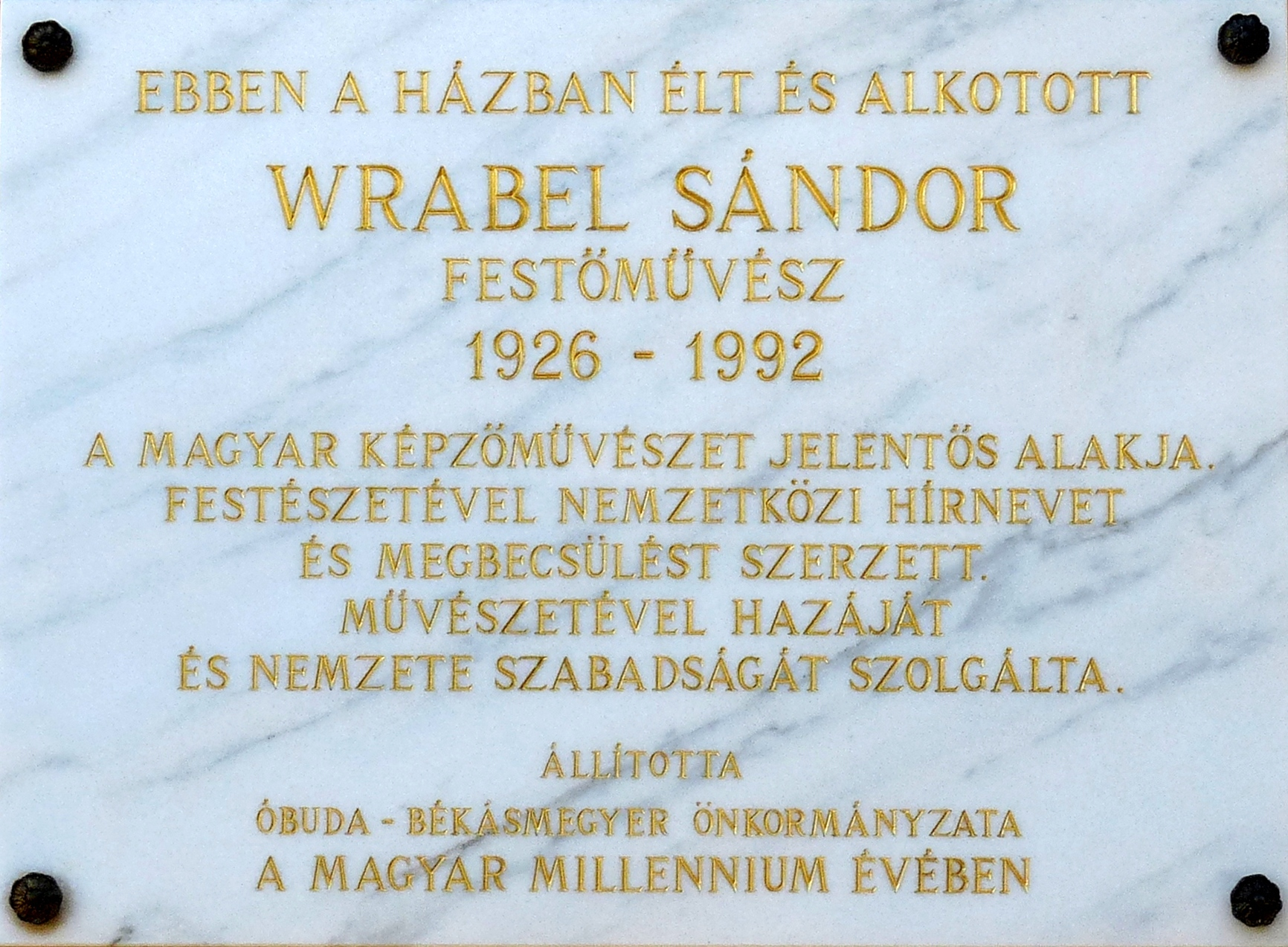 Commemorative plaque to Mr. Sándor Wrabel (1926-1992) Hungarian painter. It has been affixed to the wall of his former home in Csillaghegy, November 26, 2001, on the occasion of his 75th birthday. (Budapest, District III, Géza Street Nr 13)